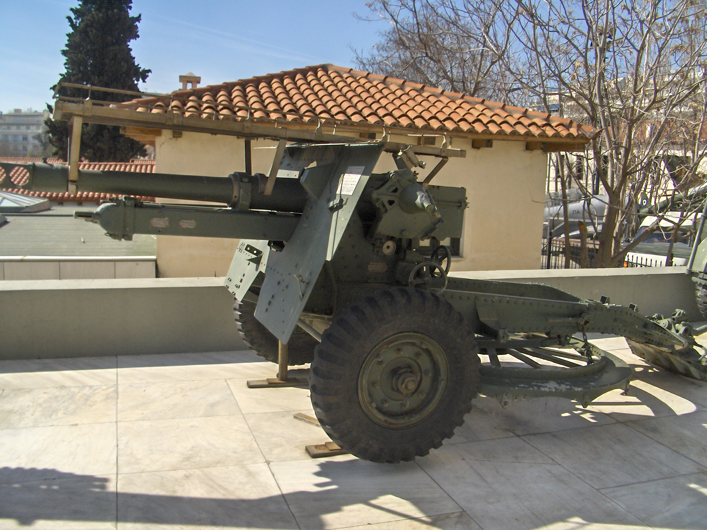 Exhibit at the War Museum in Athens.